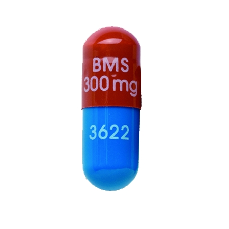 atanazavir 300mg